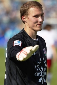 Otto Fredrikson playing for Spartak Nalchik.